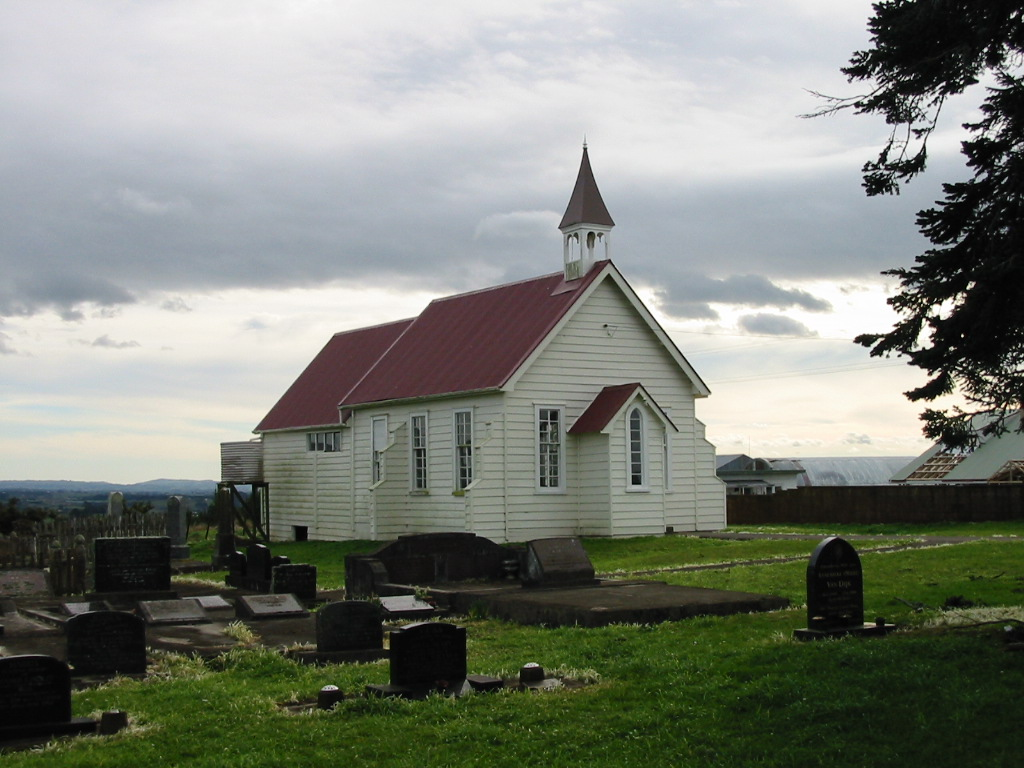 Pukekohe East Church (95 Runciman rd [@ jctn Rutherford rd], Franklin 2677), site of a skirmish between Maori and British troops in 1863.[1]